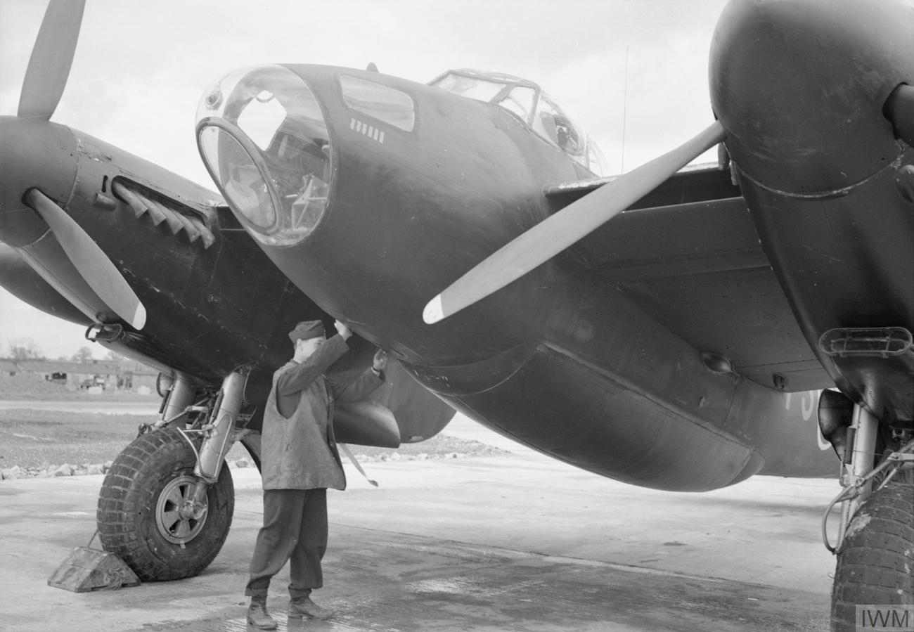 Royal Air Force Bomber Command, 1942-1945. A De Havilland Mosquito B Mark IV (modified) of No. 692 Squadron RAF of the Light Night Striking Force, at Graveley, Huntingdonshire, showing the enlarged bomb-bay, fitted to accommodate the 4,000-lb HC bomb ('Cookie').